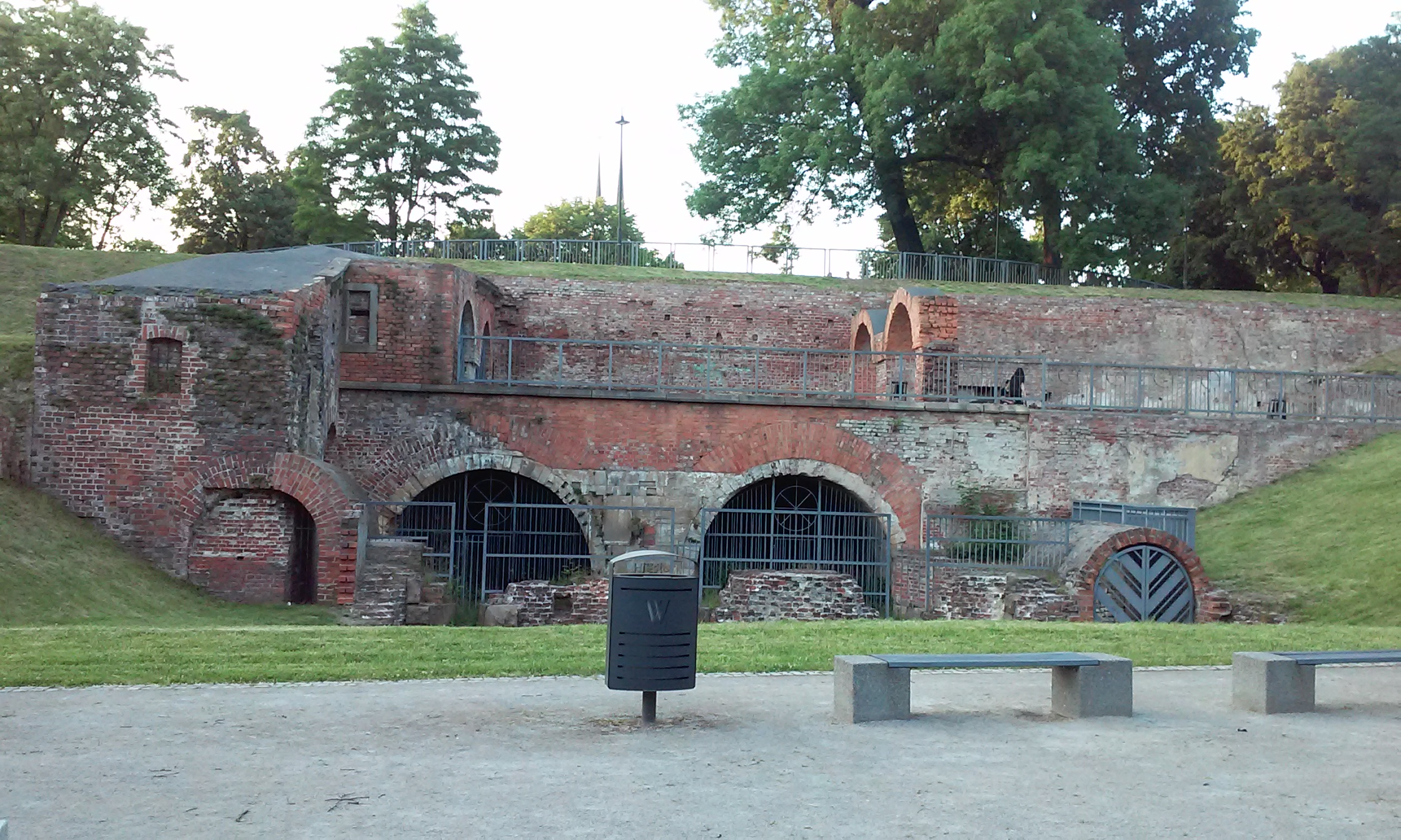 Preserved ruins of the Brick Bastion (Bastion Ceglarski) in Wrocław, Poland